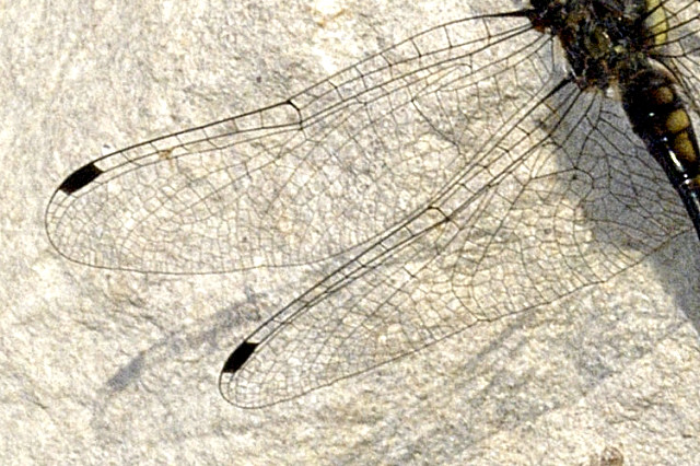 Picture taken in Commanster, Belgian High Ardennes . Species: Sympetrum danae wing detail